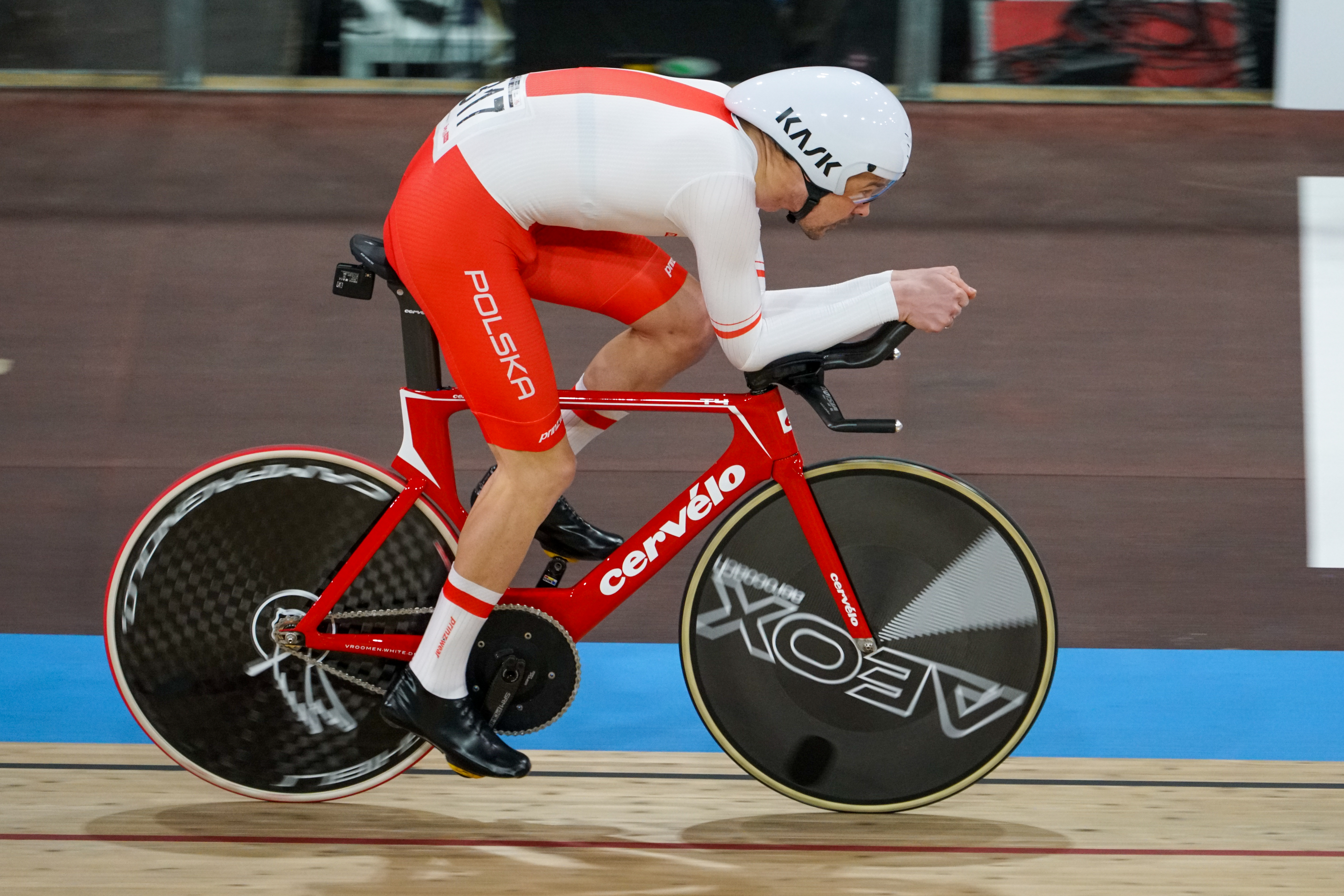 2020 UCI Track Cycling World Championships – Men's Individual Pursuit – Qualifying